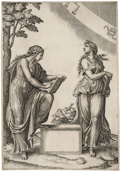 Two Women with the Signs of Libra and Scorpio. Engraving, only state; sheet (trimmed): 11 5/8 x 8 in. (29.5 x 20.3 cm).